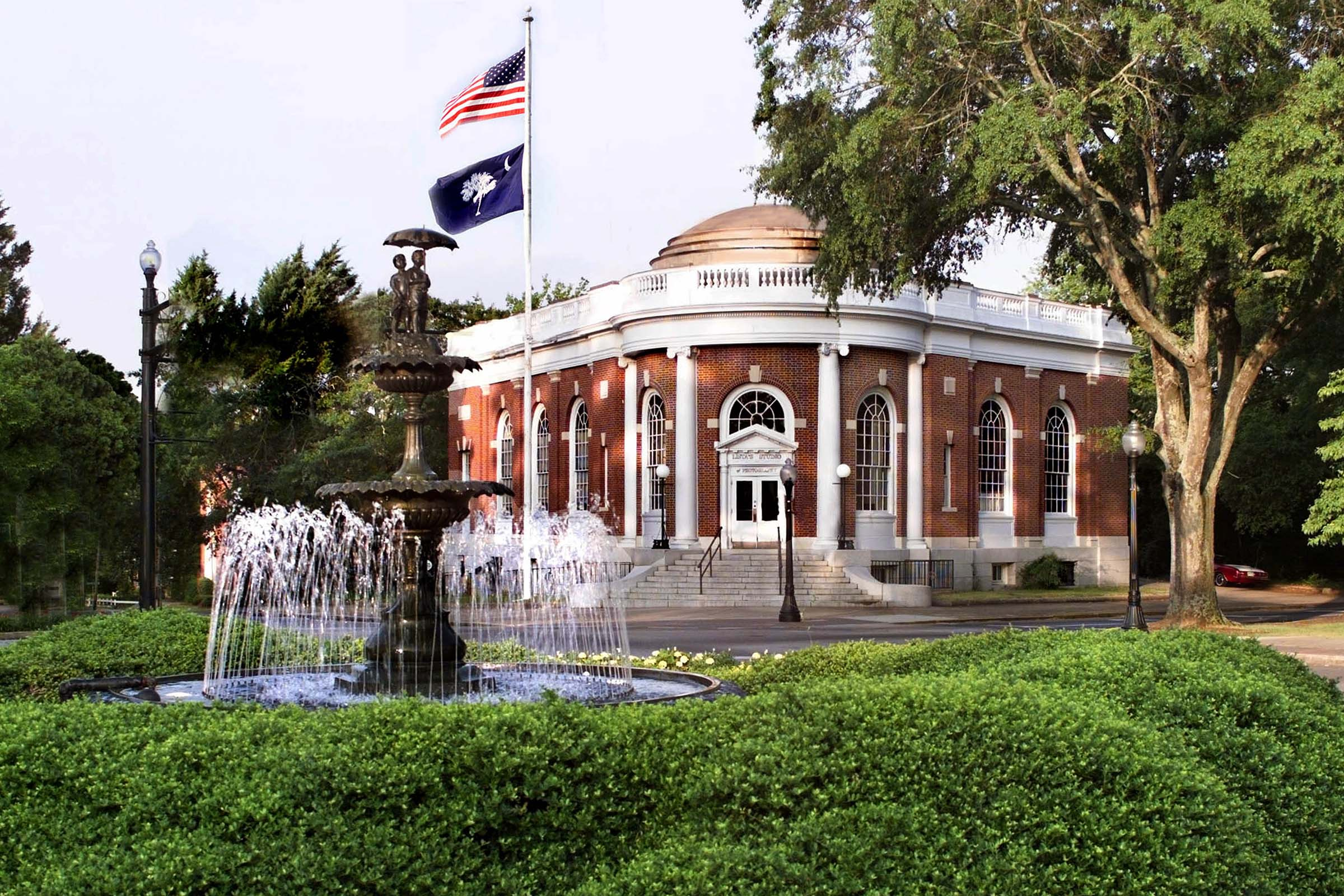 The Old Aiken Post Office On in downtown Aiken. Owned by Todd Lista.